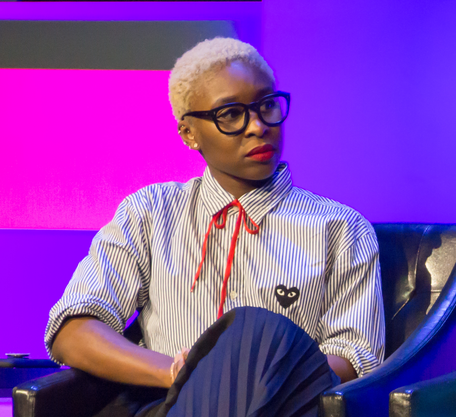 Time's Up event at the 2018 Tribeca Film Festival (Tribeca Talks: Time's Up). A series of talks/performances about Time's Up/sexual harassment. Cynthia Erivo during the Reclaiming the Narrative panel.